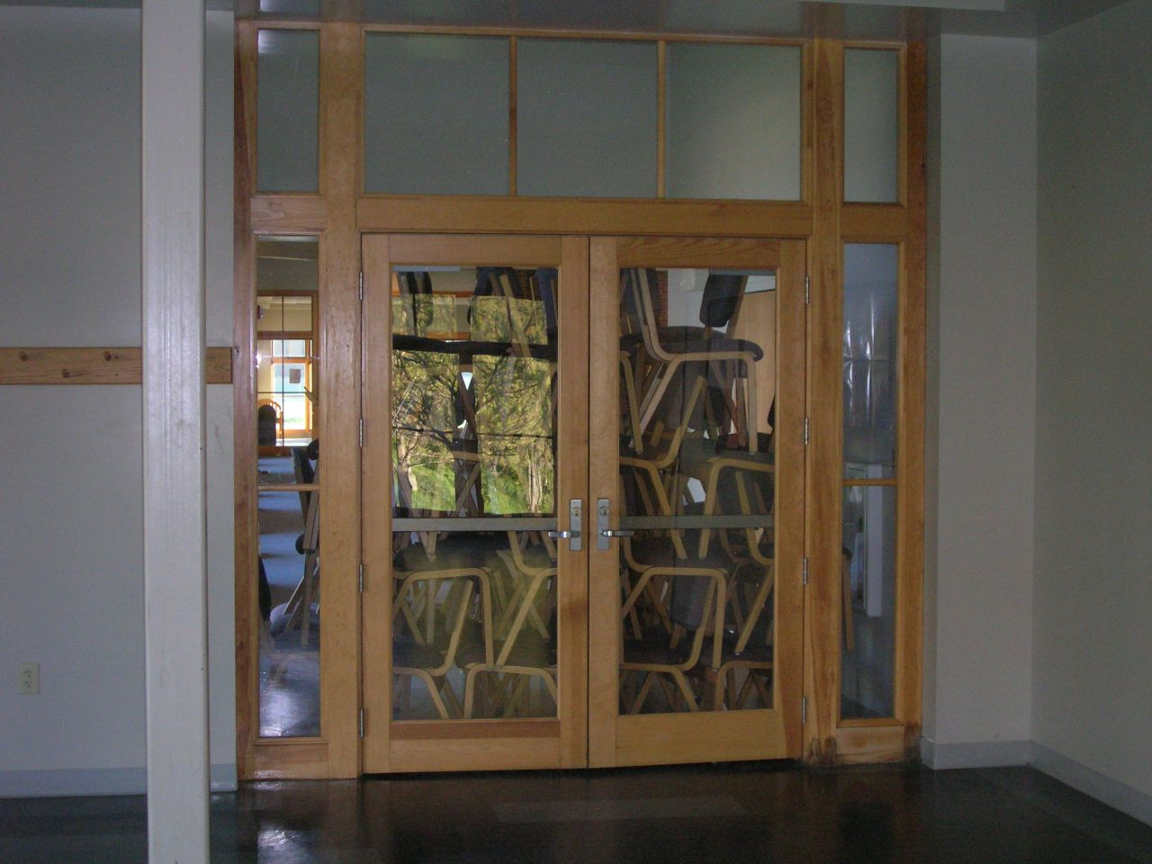 The dining hall, like Fitch, had every doorway blocked with chairs.